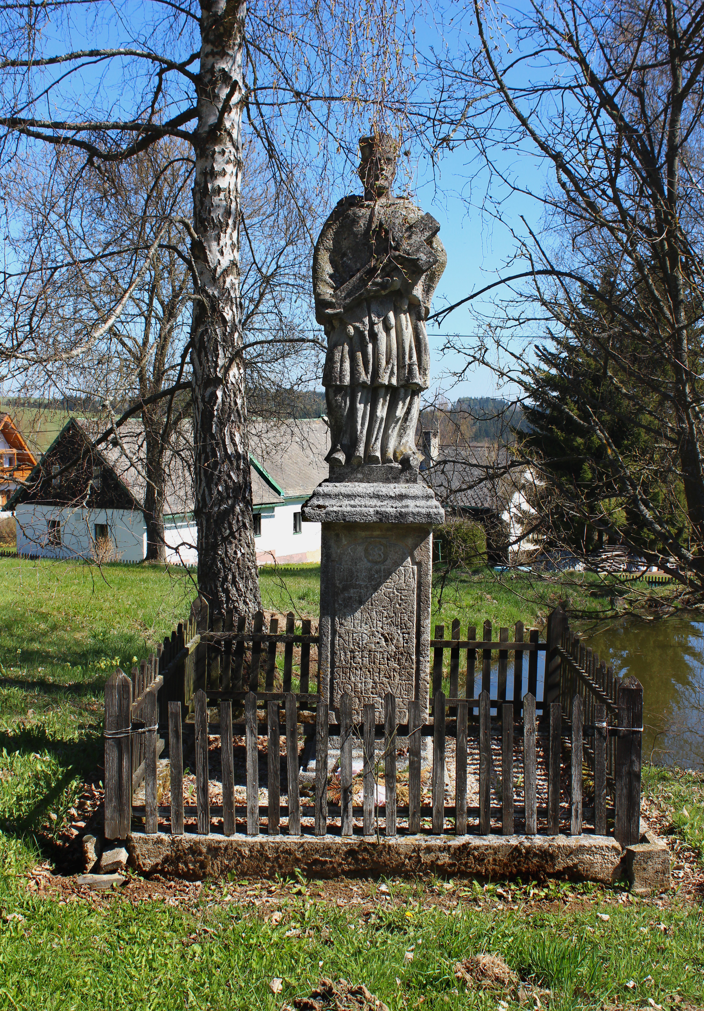 John of Nepomuk statue in Číhaná, part of Teplá, Czech Republic